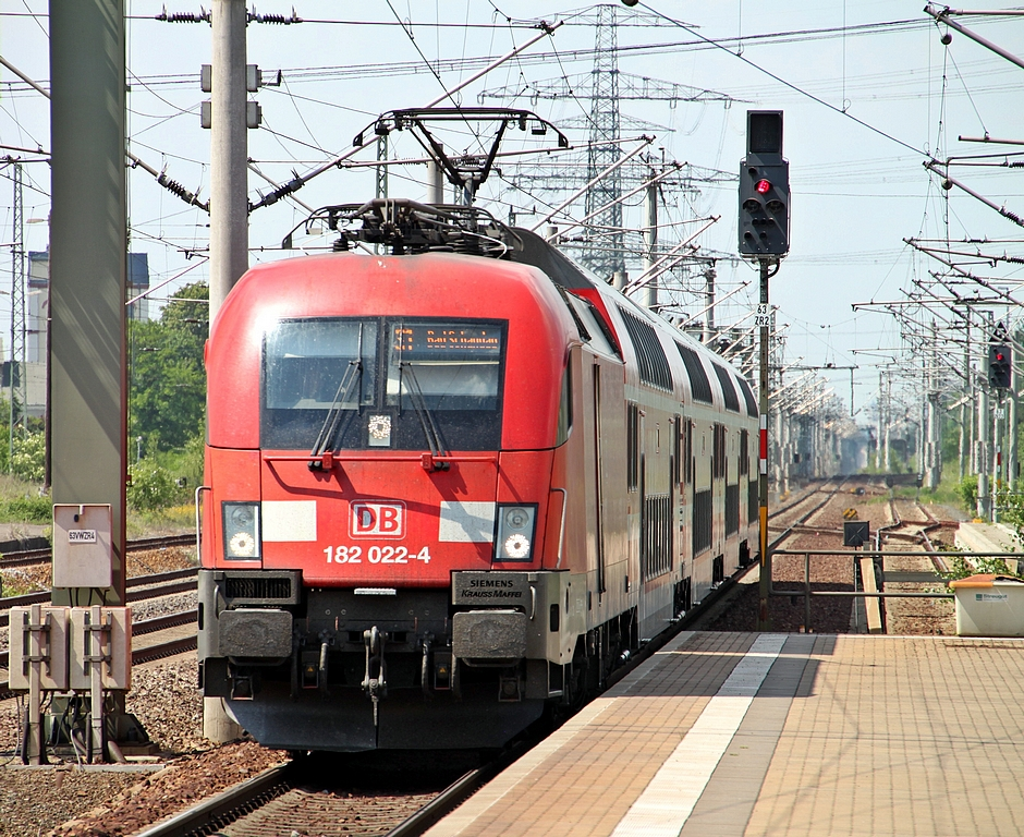 electric locomotive Class 182 (182 022-4), built by Siemens as Siemens ES64U2, with a train of the Dresden S-Bahn seen in Heidenau.